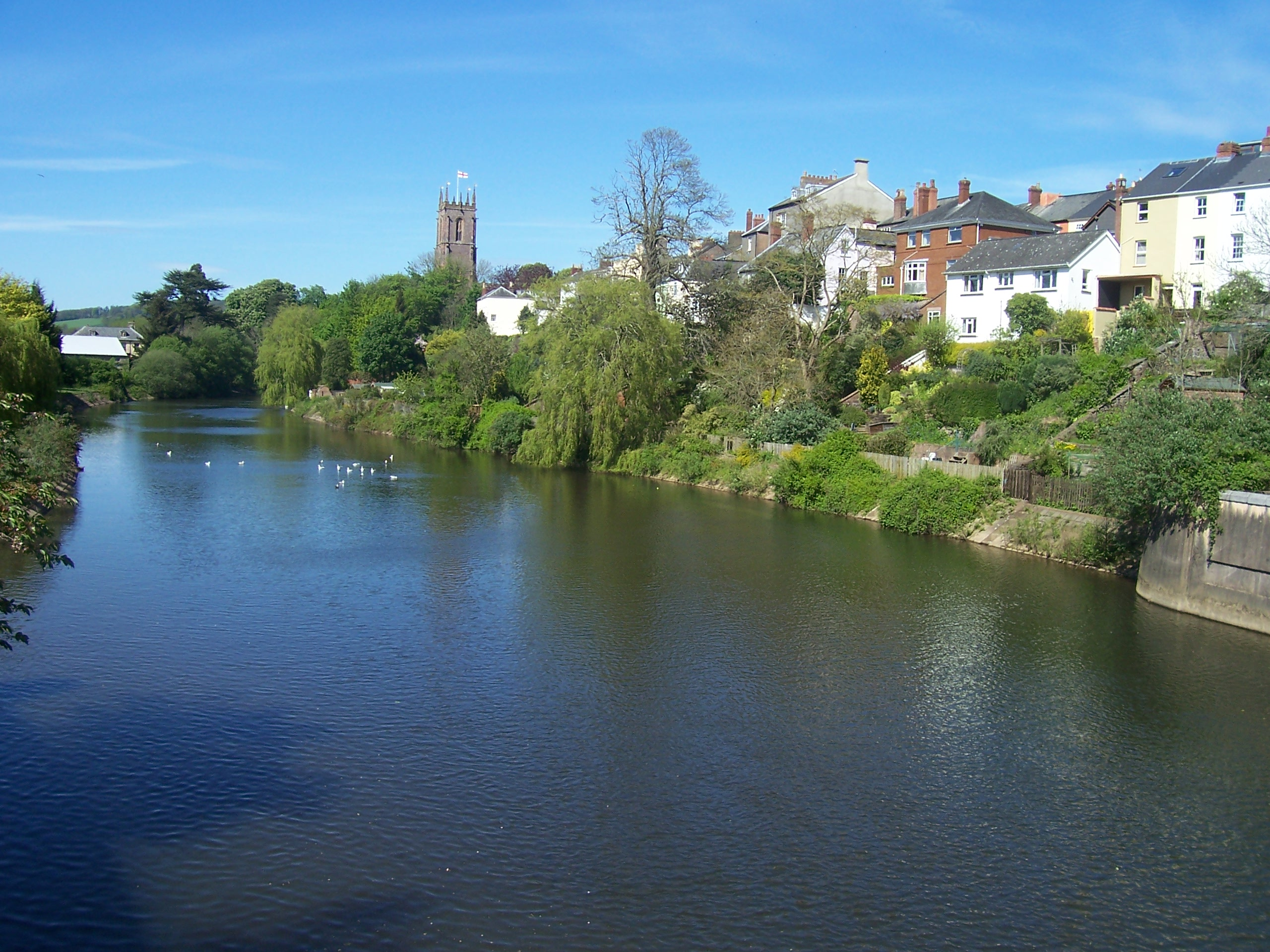 Tiverton upon Exe river